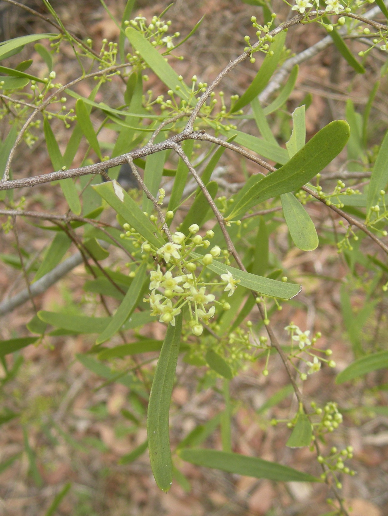 Maytenus cunninghamii flowers. Mount Etna Caves National Park, Central Queensland.